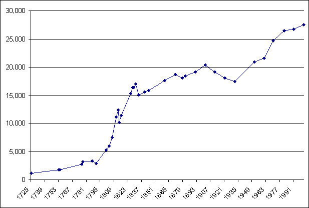 Gibraltar population through its censuses (1725-2001)